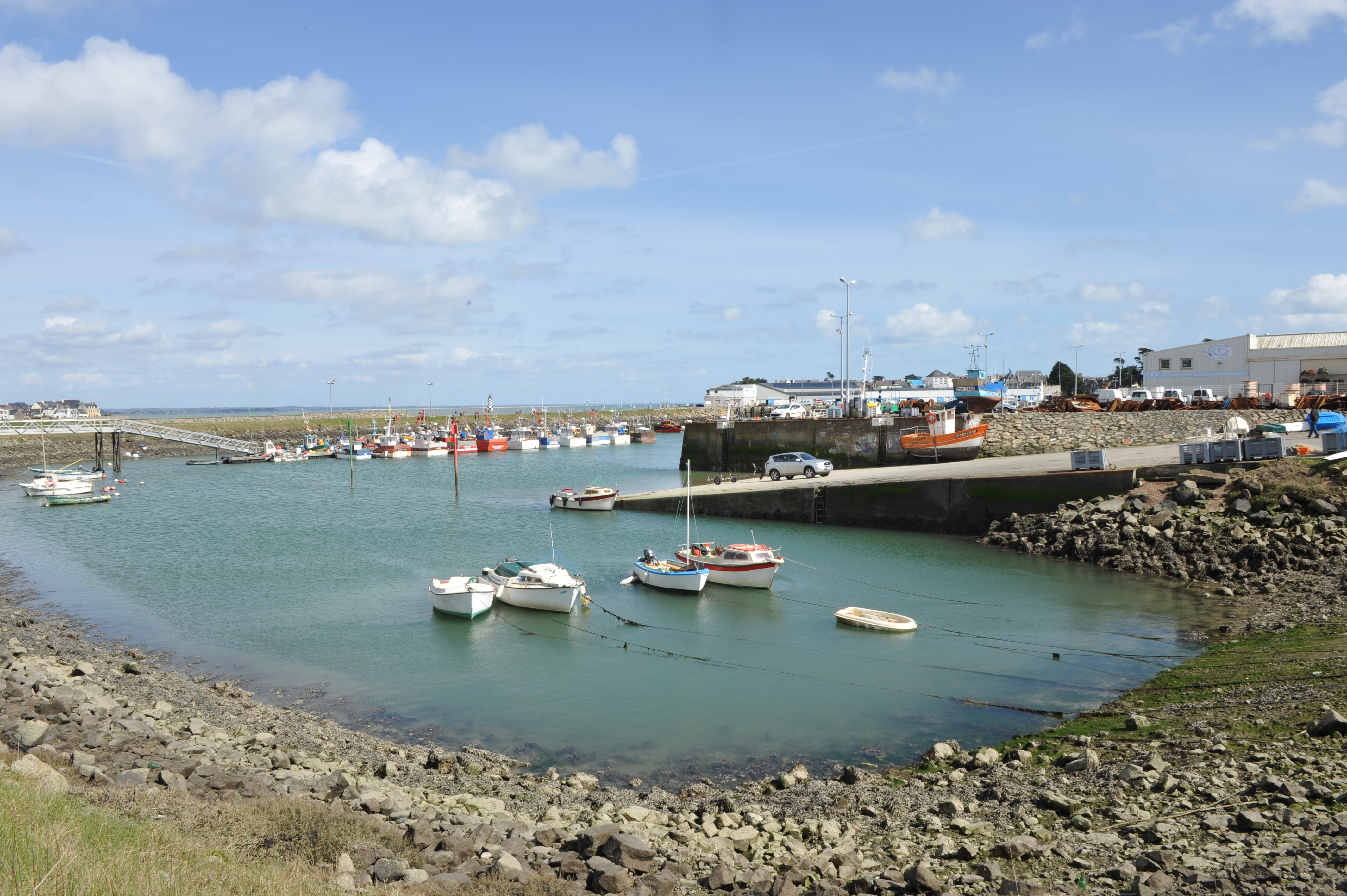 Discount Fishing Vessel Loctudy Finistère France